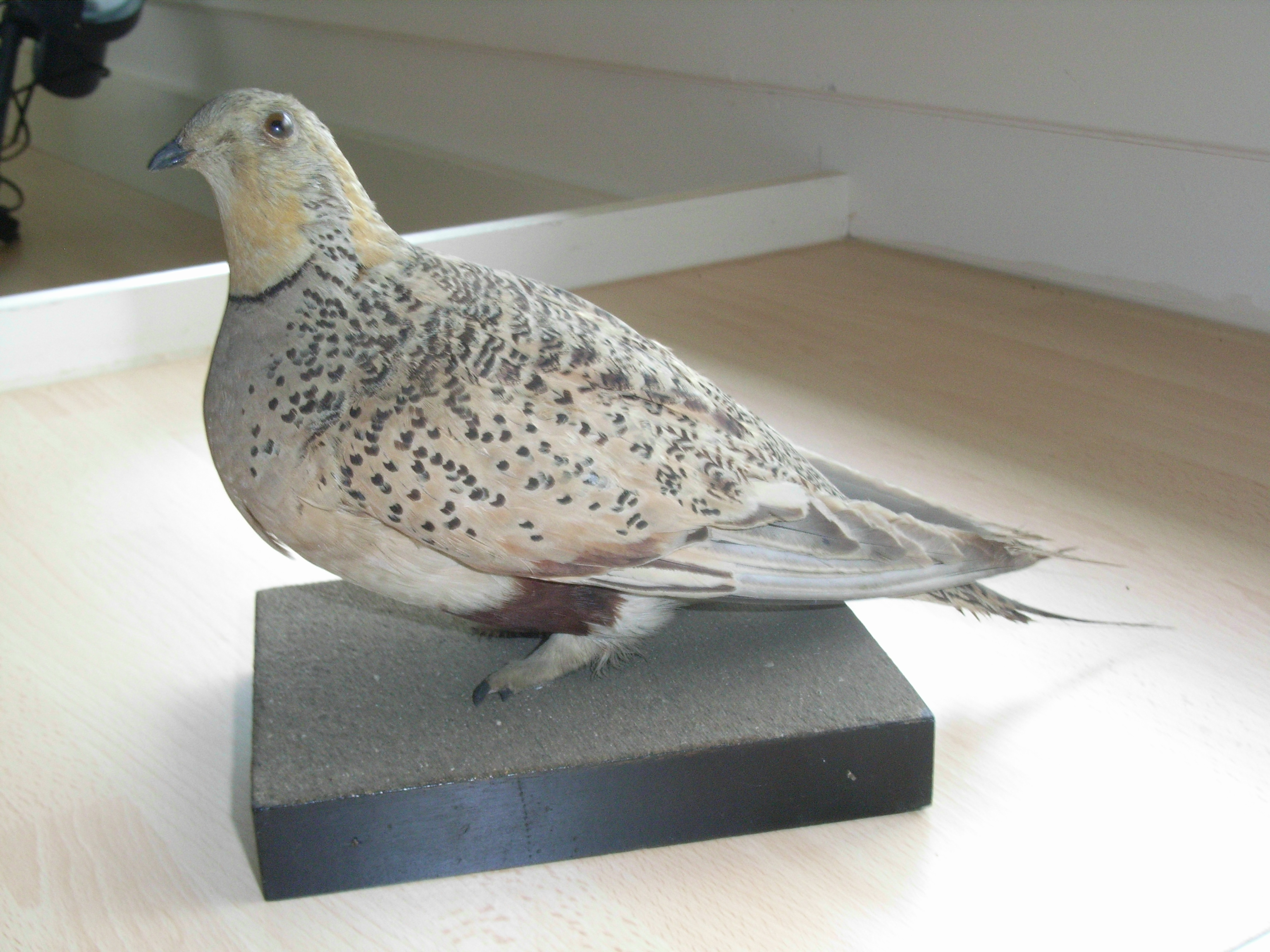 Pallas's Sandgrouse Museum specimen Co.Clare, Ireland, 1888